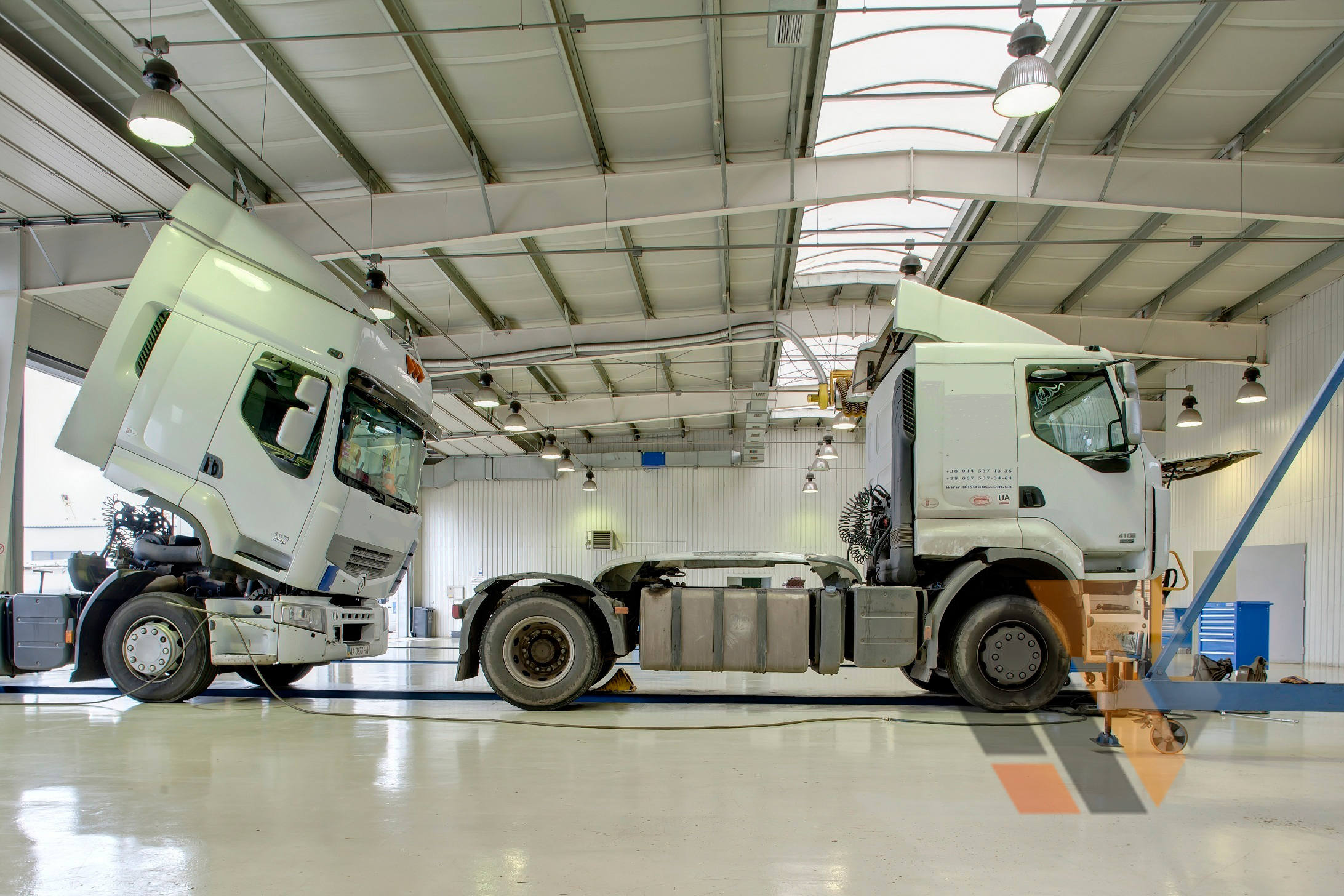 Ankomtech Service Center